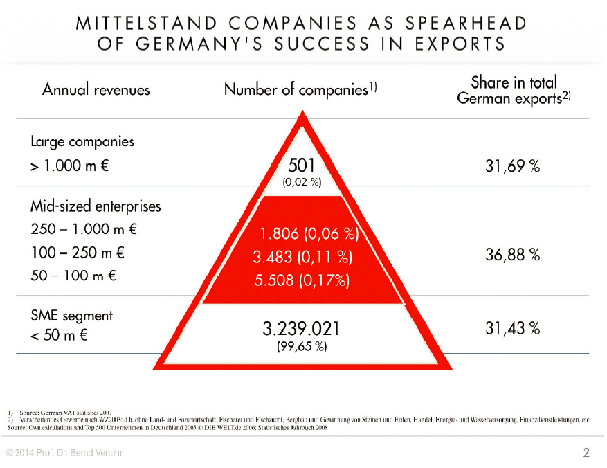 Mittelstand Pyramide. Source: Venohr, B., Fear, J., & Witt, A. (2015). "Best of German Mittelstand- The world market leaders." In Langenscheidt, F. & Venohr, B. (Eds.) The Best of German Mittelstand. cologne: Deutsche Standards Editionen